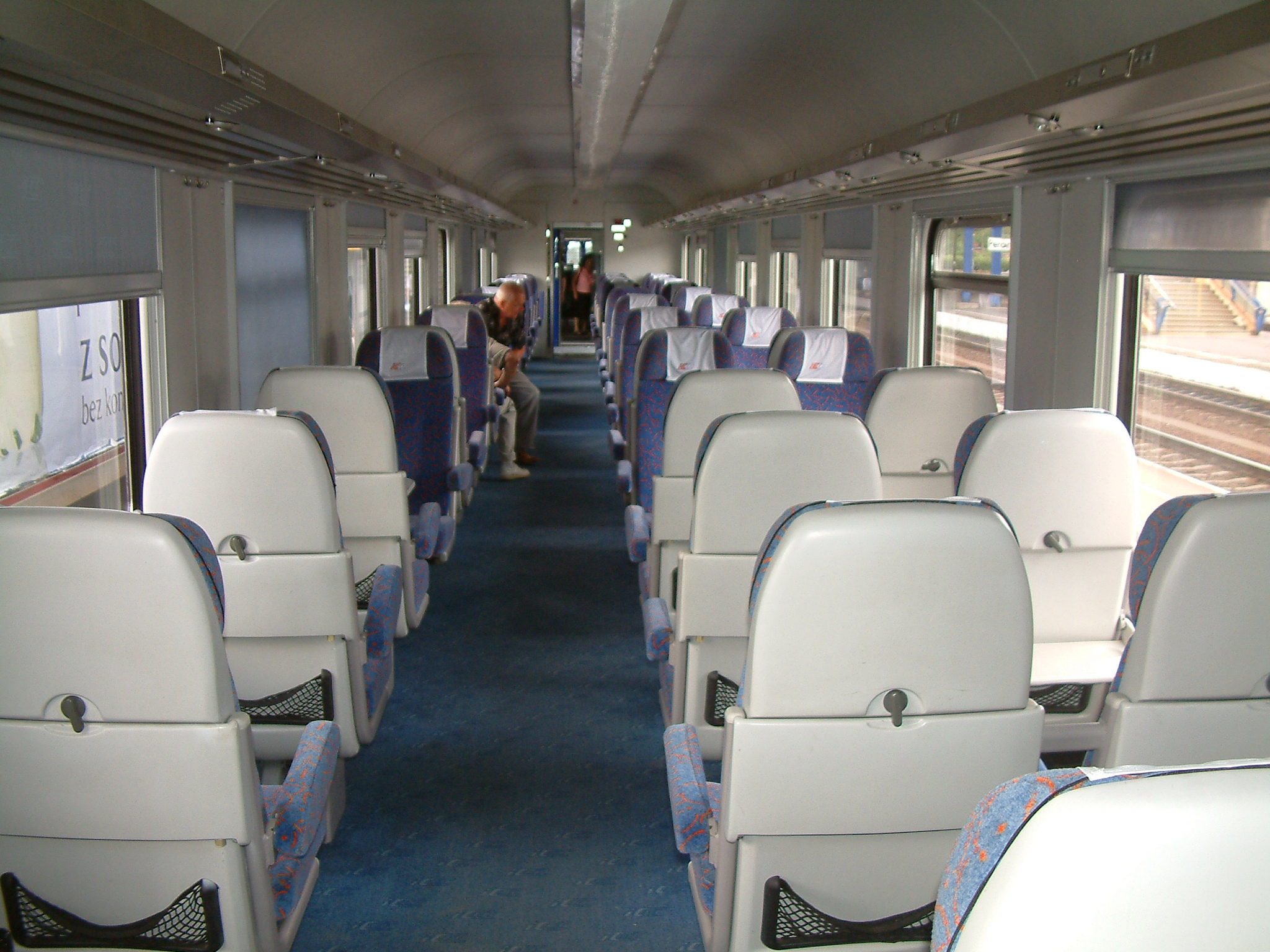 Rail car 152Aa-19763 of PKP, Inter City, 1st class